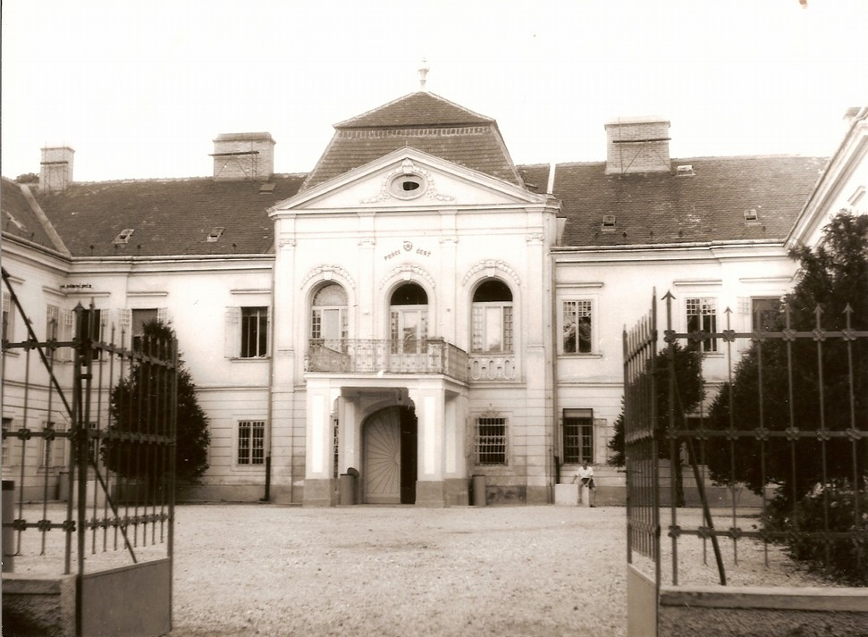 Court of Tomášov Manor house in 1950s